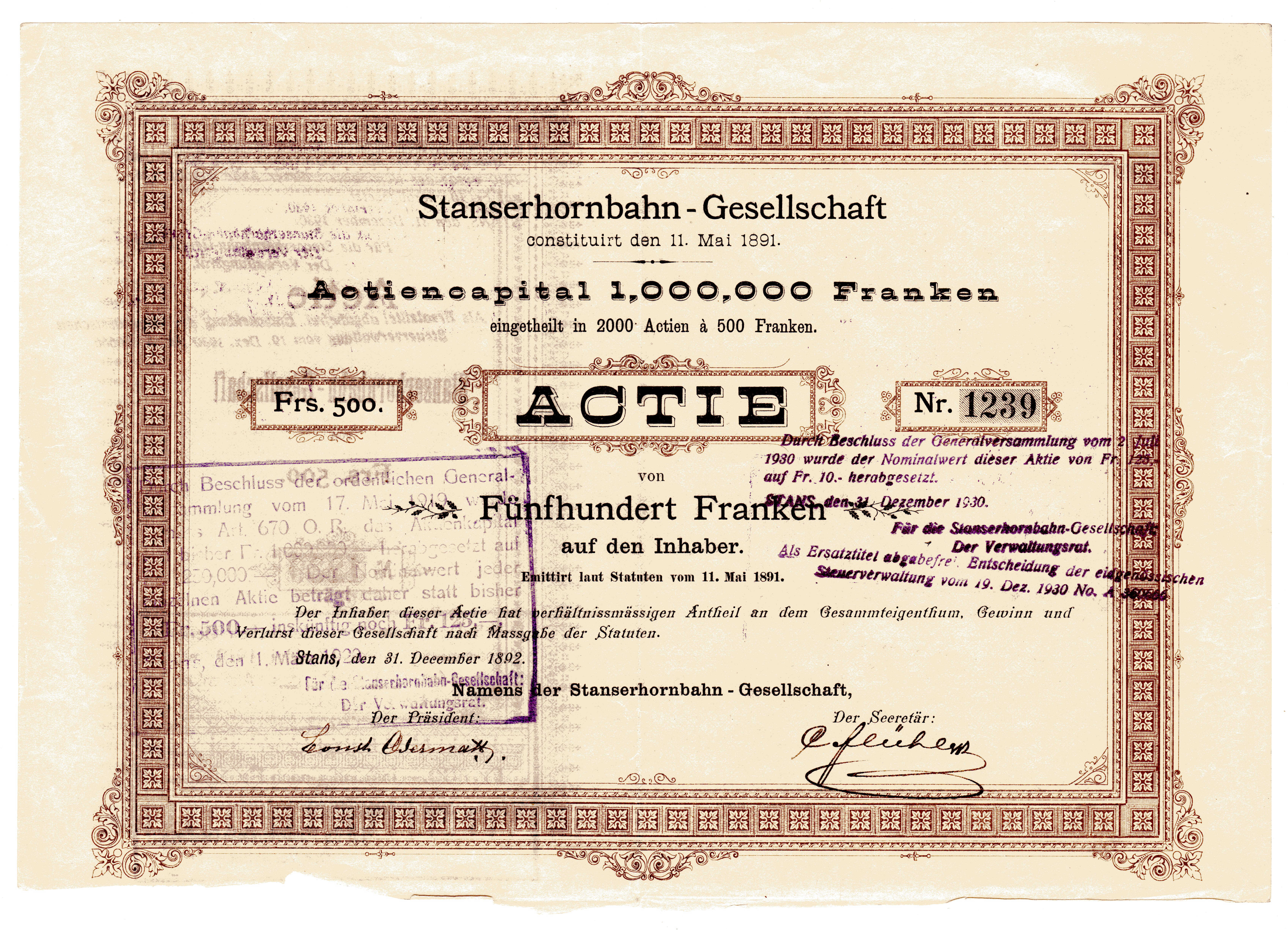 Share of the Stanserhornbahn-Gesellschaft, issued 31. December 1892